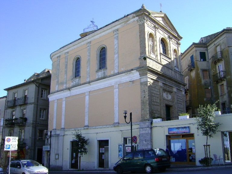 The church of Madonna Addolorata to Atessa